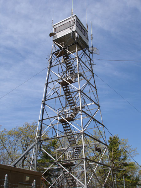 The Mt. Toby Firetower.